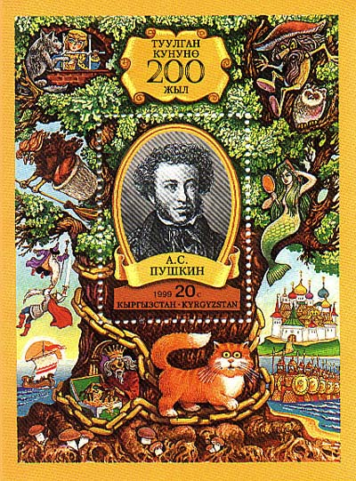 Stamp of Kyrgyzstan